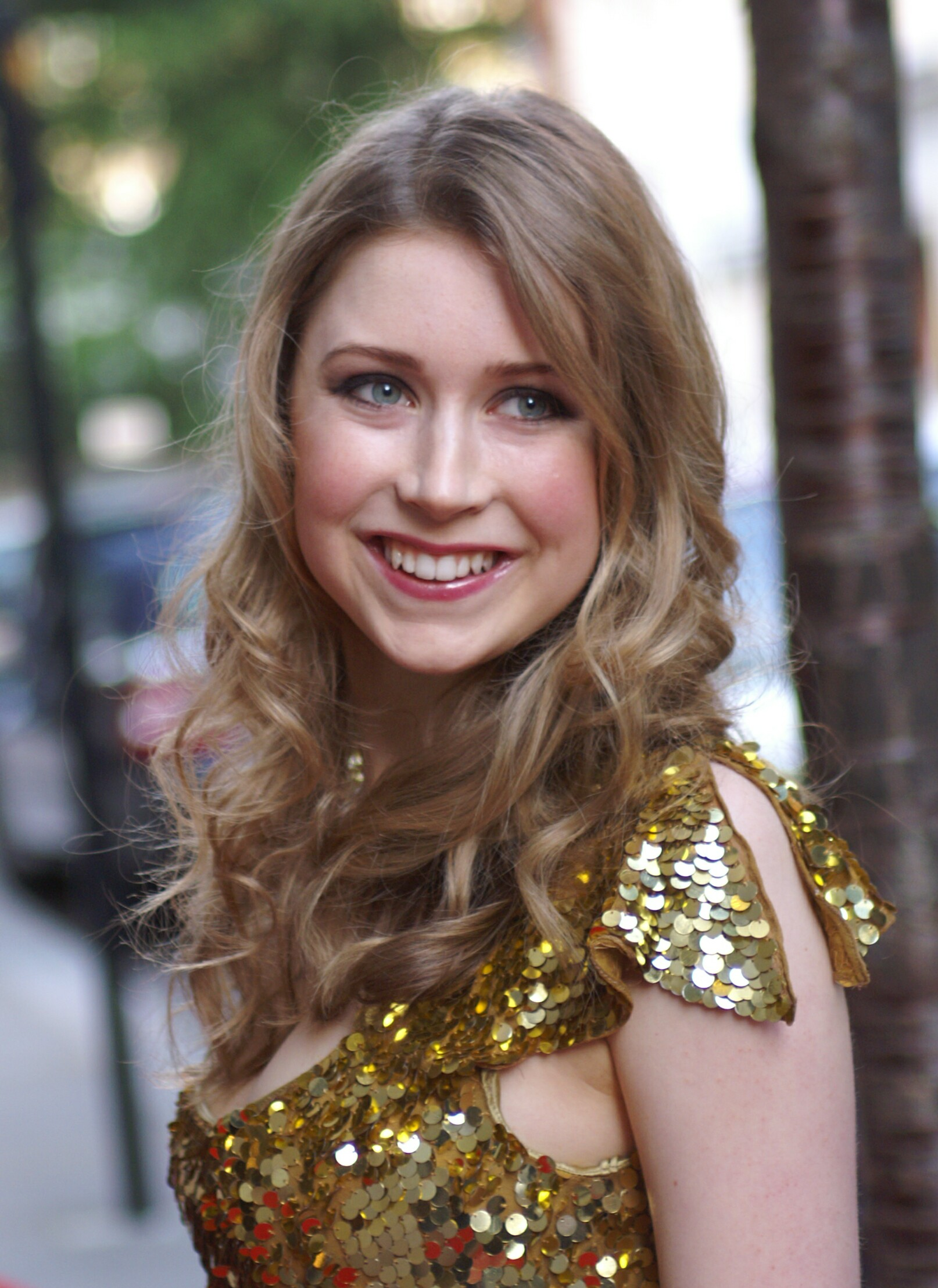 I emailed one of the Hayley Westenra Fan groups for a picture of her that could be used on Wikipedia under the GNU Free Document license. This is one of the pictures that they emailed me. site: Copyright (c) 2006 Steven Hayter [HWI].